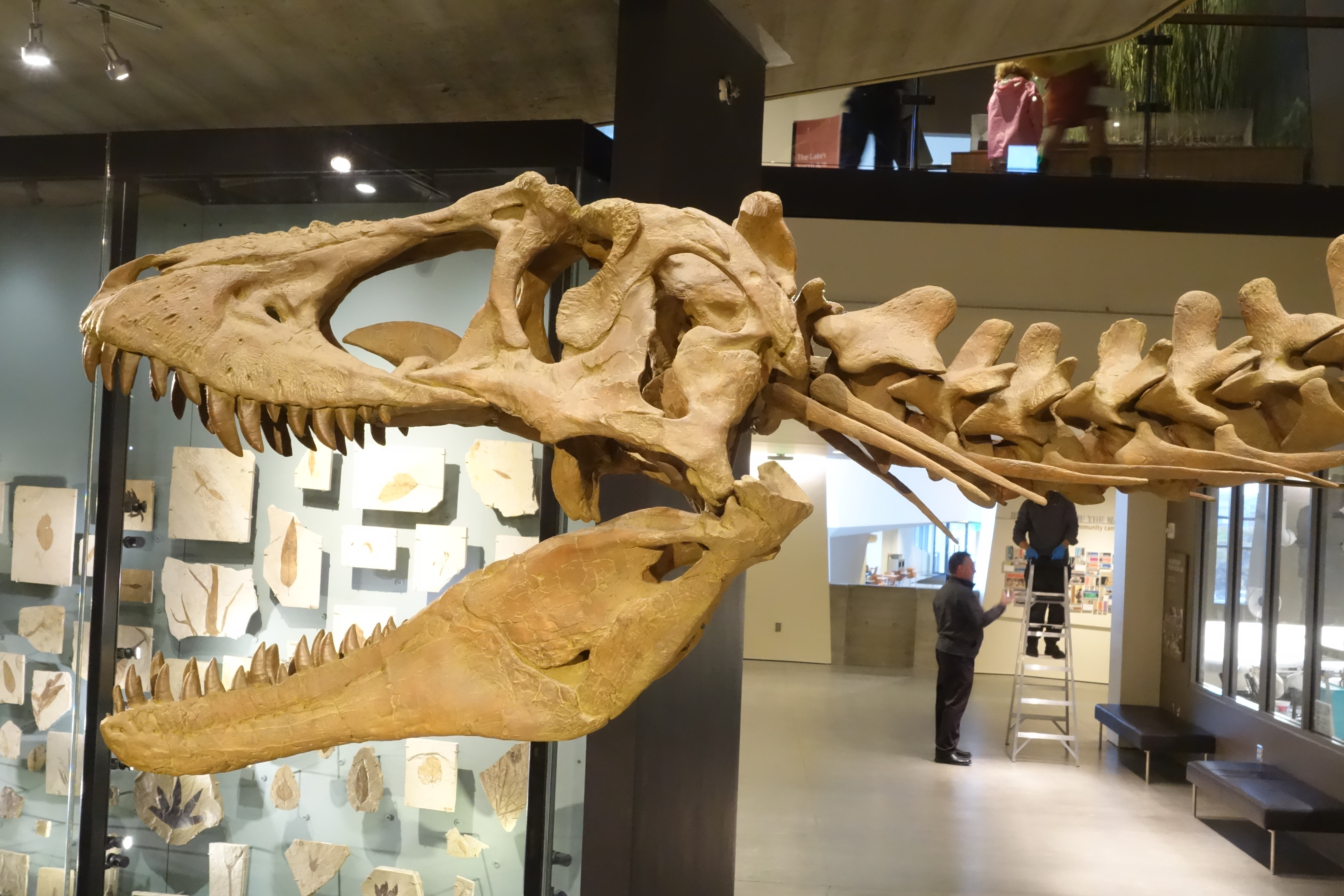 Lythronax skull cast, on display at the Natural History Museum of Utah, Salt Lake City.